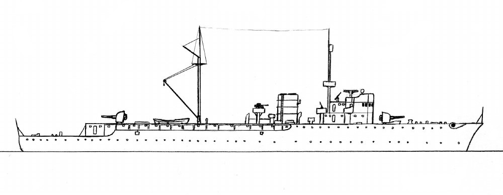 Italian colonial ship Eritrea